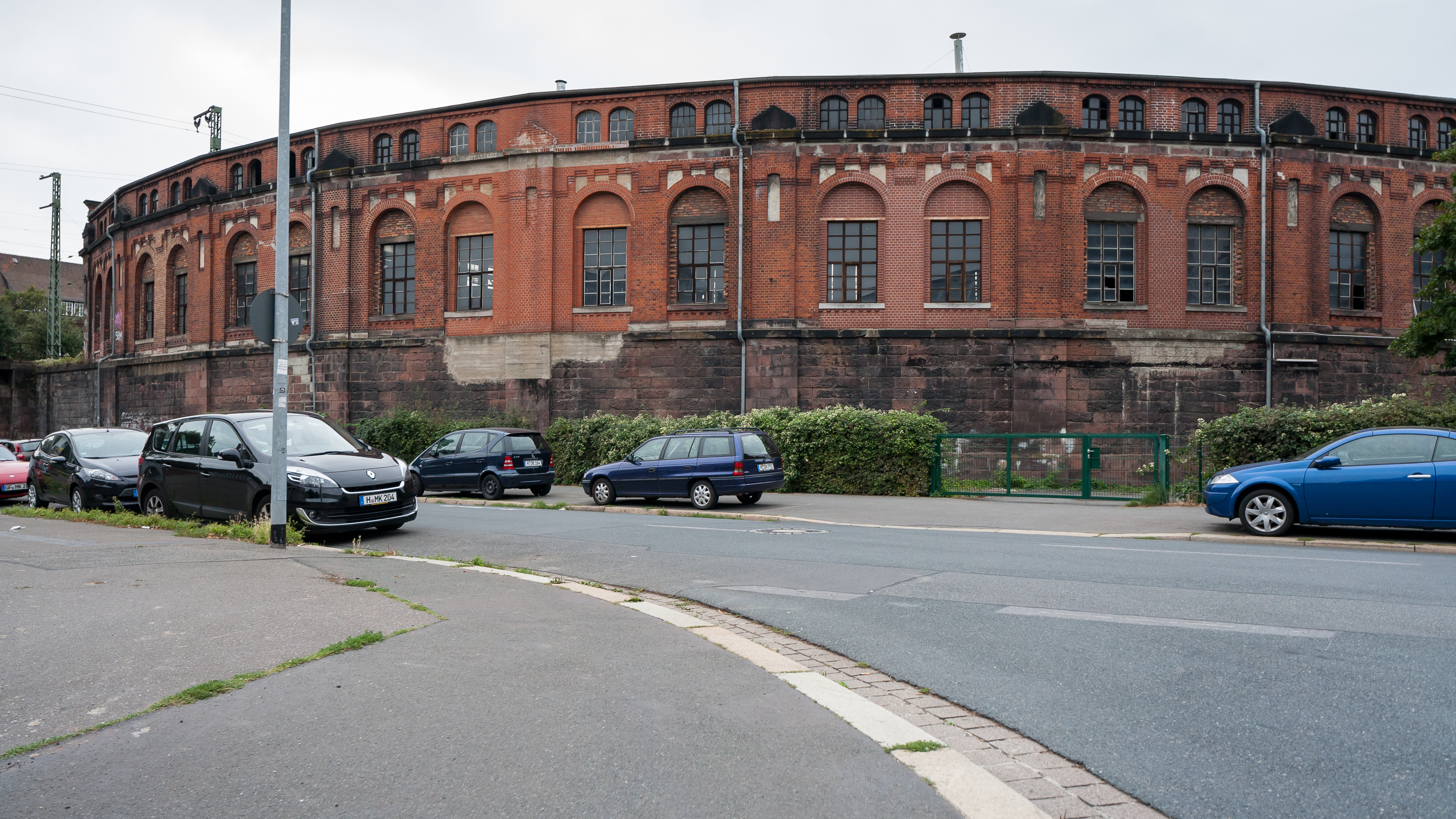 Enginehouse, Stadtstrasse, Hanover (Bult), Germany.